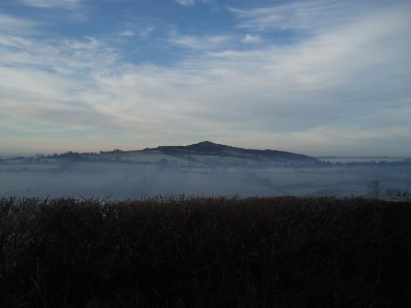 Knockeyon_ab_morning_fog01.JPG Own Work Gavigan 2006